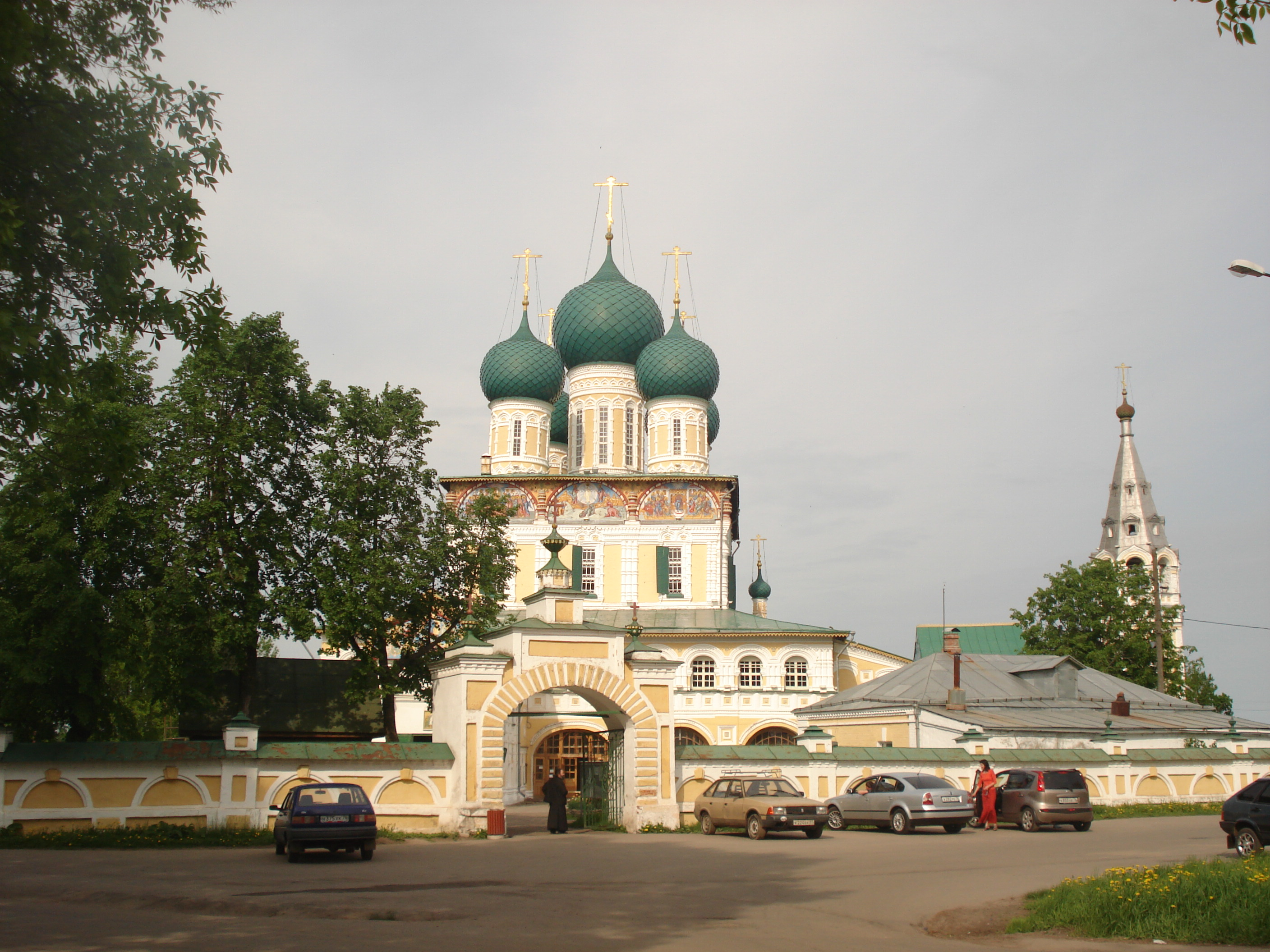 Воскресенский собор (Тутаев)